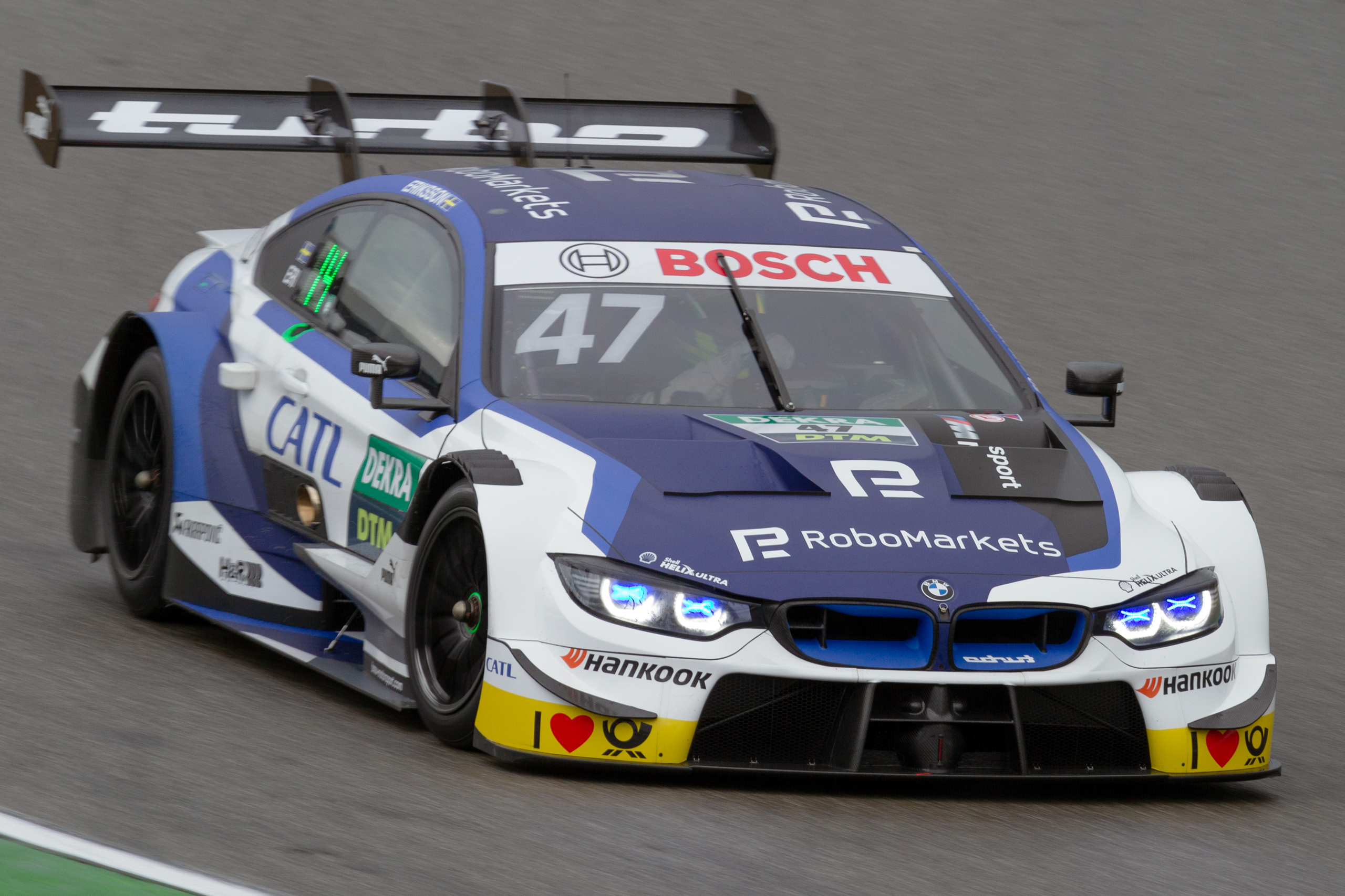 2019 DTM Hockenheimring (May): BMW M4 Turbo DTM of Joel Eriksson